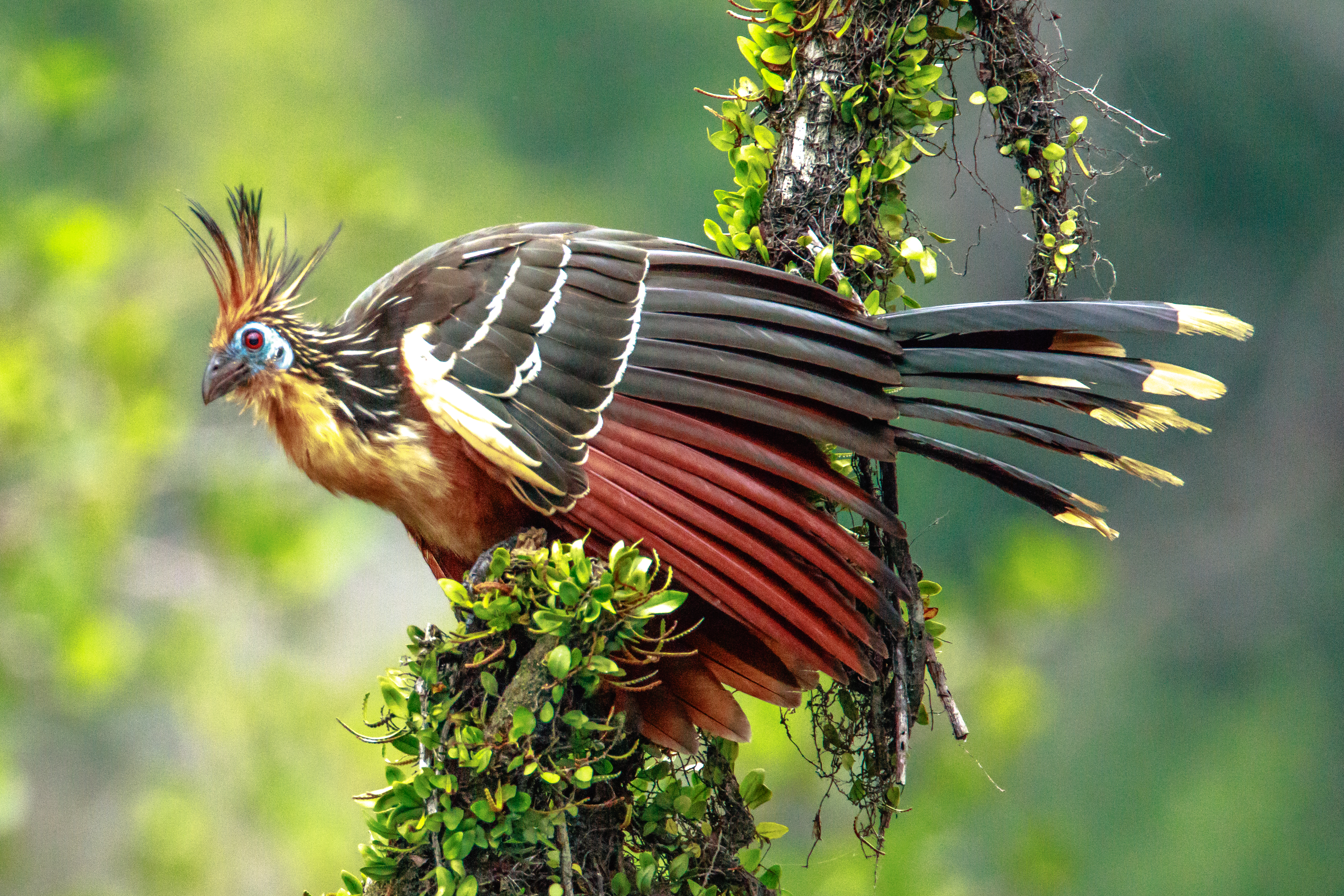 Hoatzin (Opisthocomus hoazin) photographed during a four day trip to La Selva Lodge on the Napo River in the Amazon jungle of E. Ecuador.